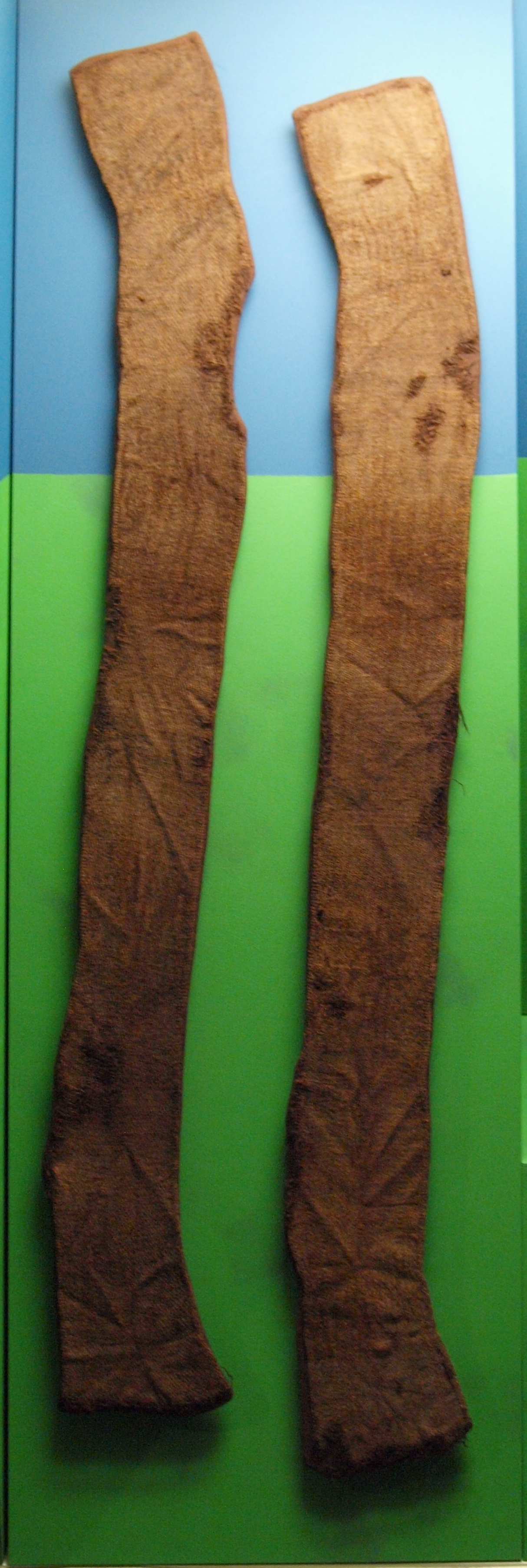 Two unrolled woolen puttees of bog body Damendorf Man, dated around 2nd to 4th century, found near Damendorf, Rendsburg Eckerförde, Germany. On display at Archäologisches Landesmuseum Schloss Gottorf in Schleswig.